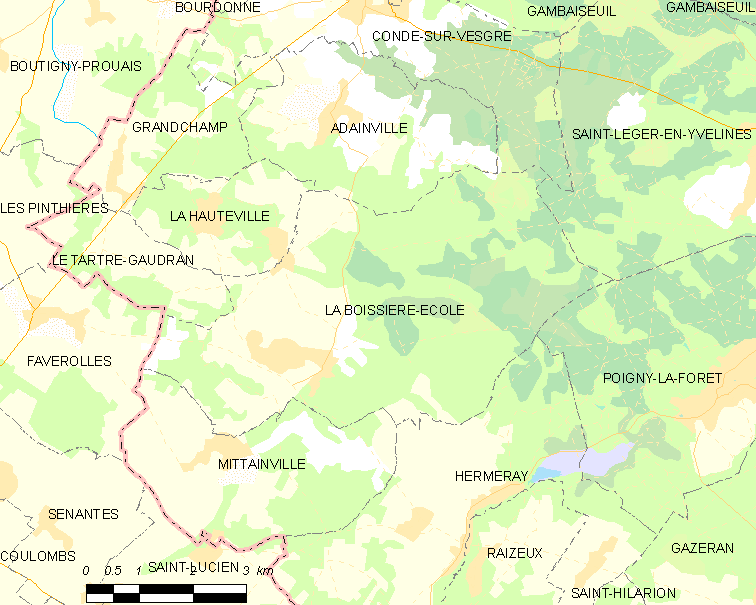 Map of French municipality La Boissière-École